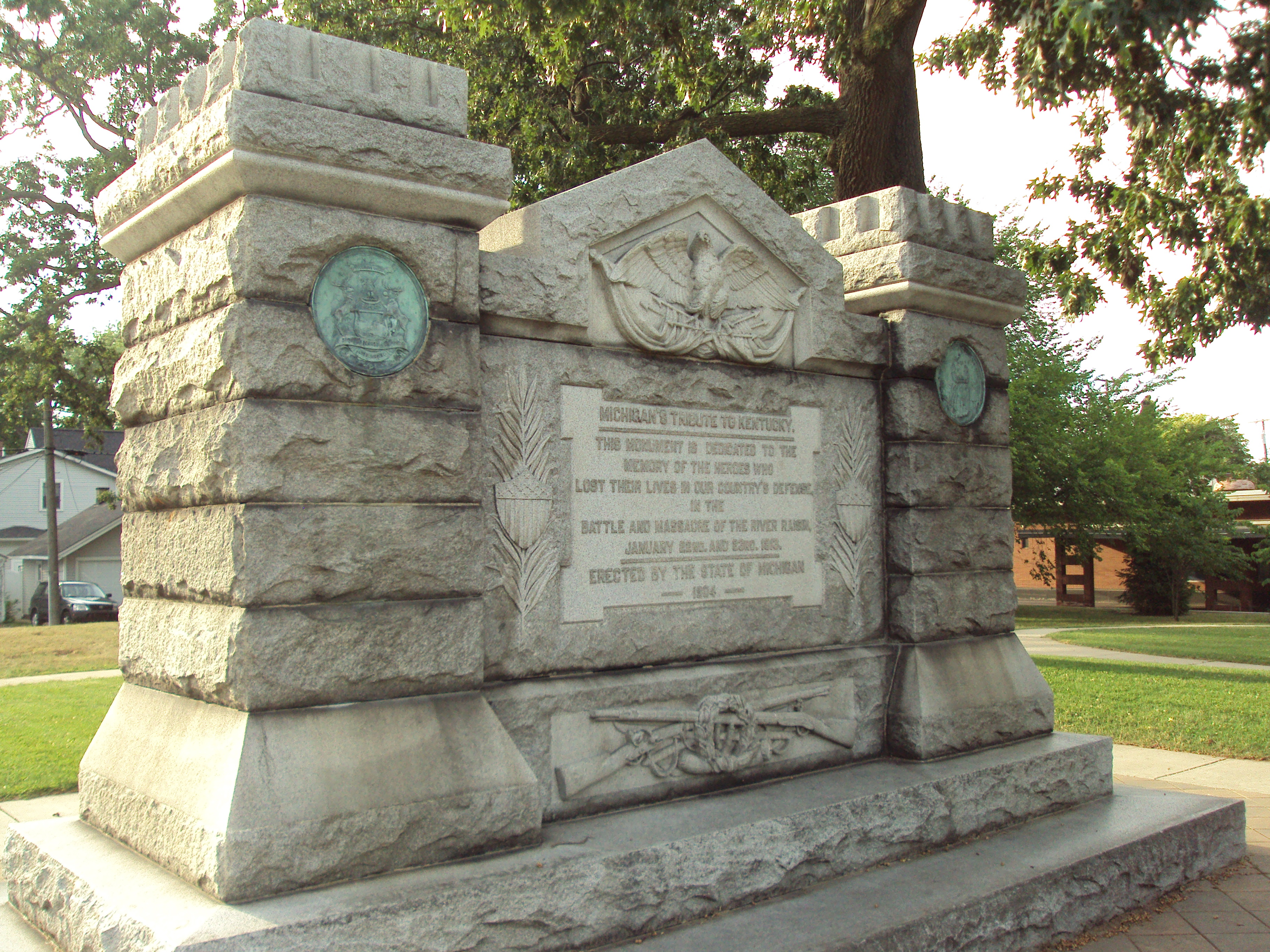 River Raisin Massacre monument in Monroe, Michigan